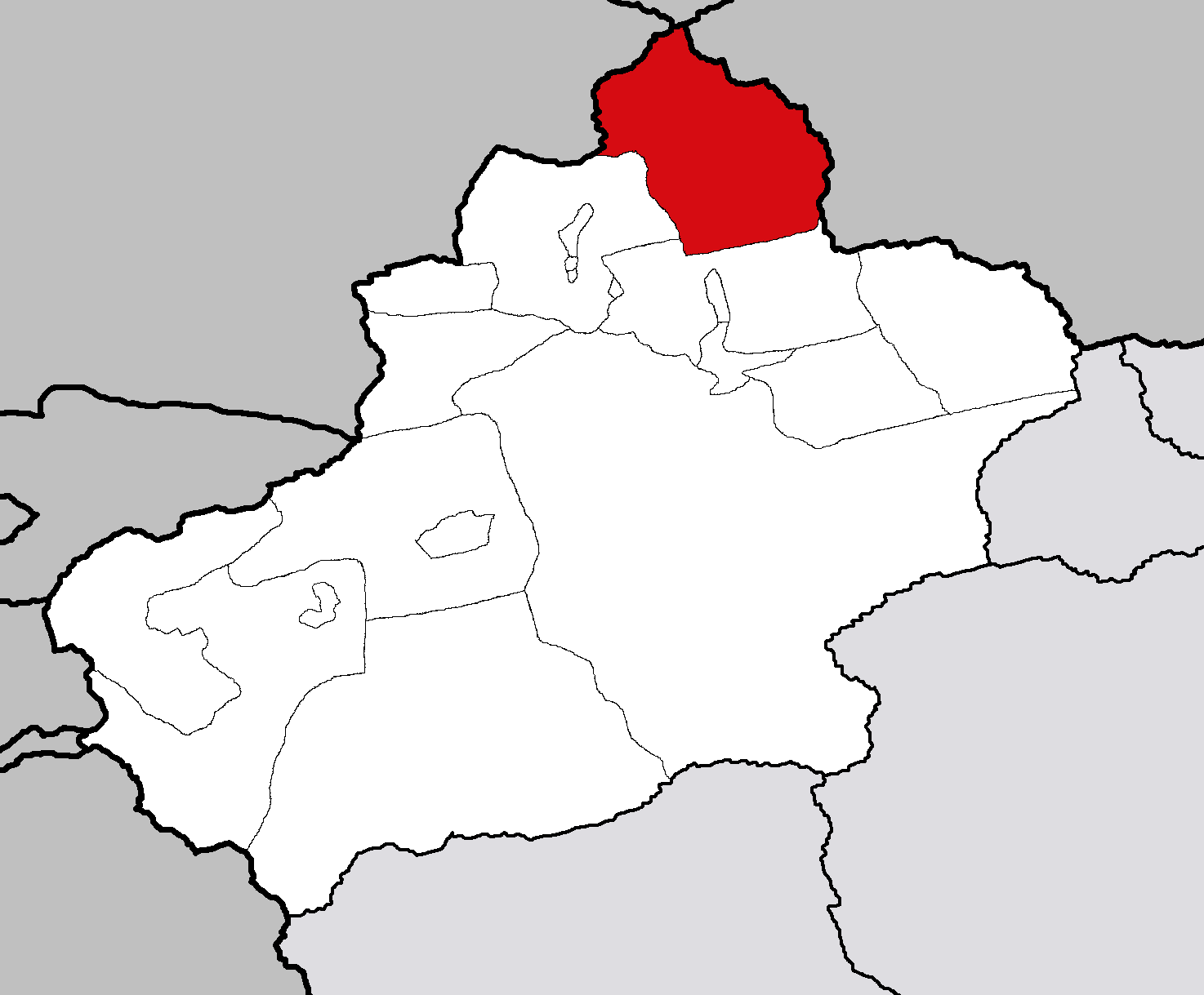 Altay prefecture in Xinjiang autonomous region of China. Template used : Image:Xinjiang prefectures template.png Author : Croquant 16:27, 14 February 2007 (UTC)